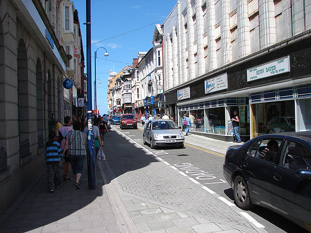 Ffordd y Mor / Terrace Road Terrace Road connects the railway station with the promenade. This is the view towards the promenade from the corner of North Parade. It has been part 'pedestrianised' but the result is pure confusion as nobody is sure who has the right of way!